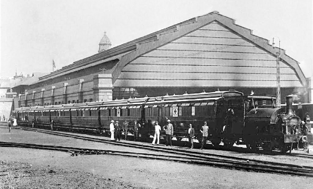 NGR Class K 0-4-0ST on Princess Christian Hospital Train at Durban Station. The locomotive was used to test the vacuum brakes of the train.